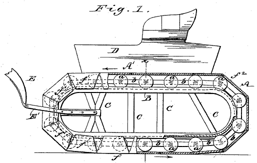 Excerpt from diagram of 351749 for Dinsmoor Vehicle